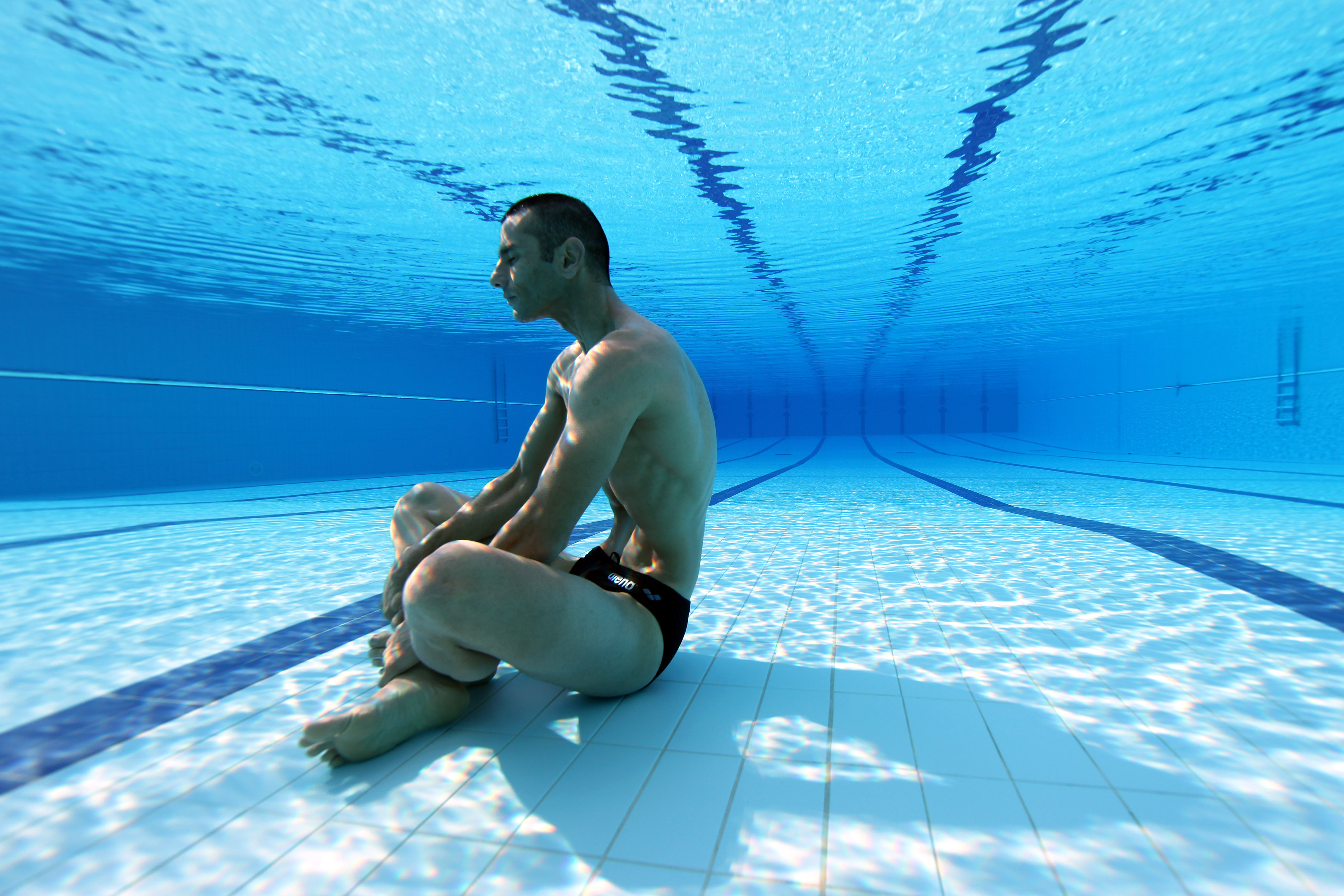 STEPHANE MIFSUD, RECORDMAN DU MONDE D'APNEE STATIQUE AVEC 11'35. A L'ENTRAINEMENT A HYERES EN VUE D'UNE NOUVELLE TENTATIVE DE RECORD DU MONDE D'APNEE STATIQUE.